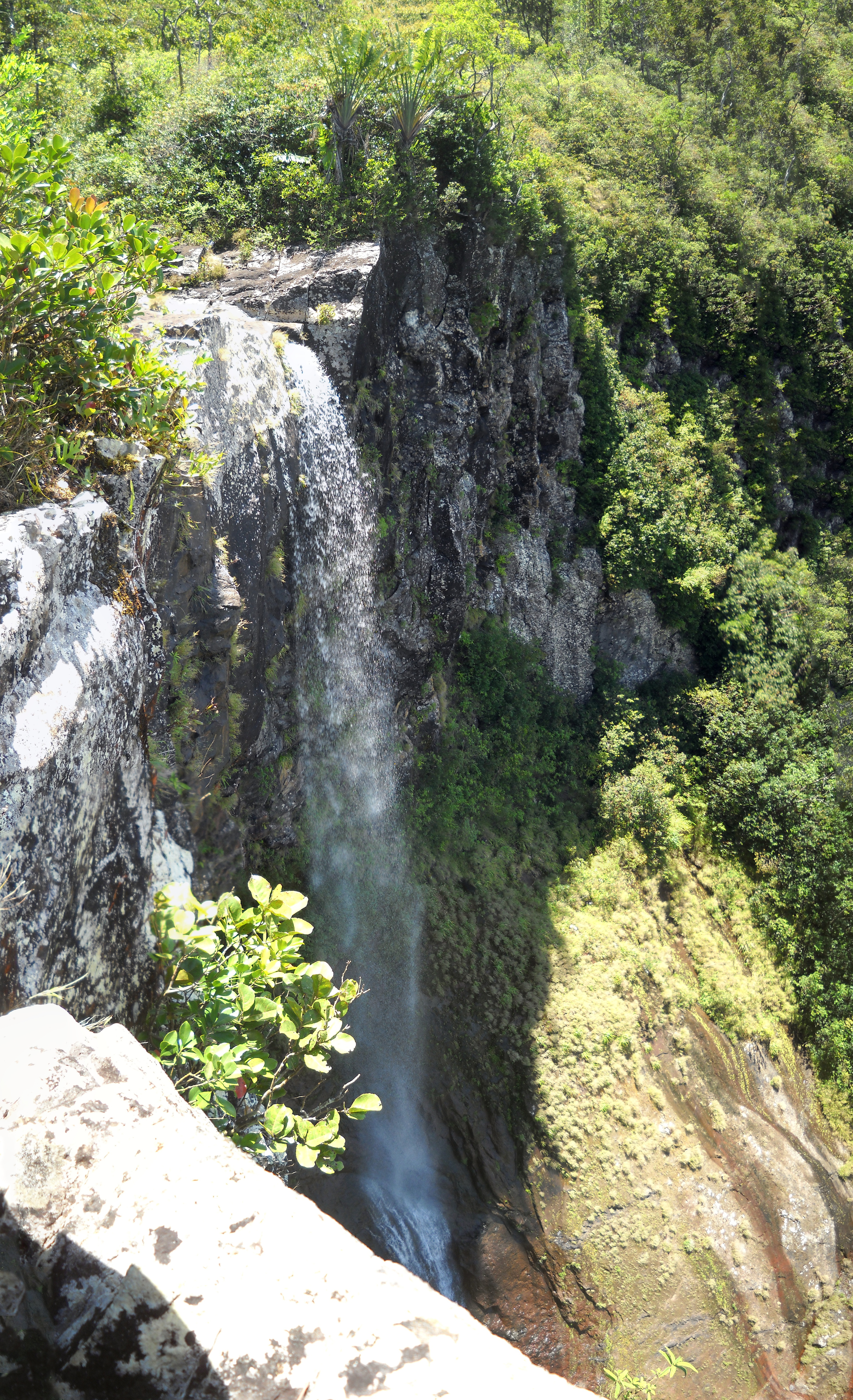 DSCN6349_stitch